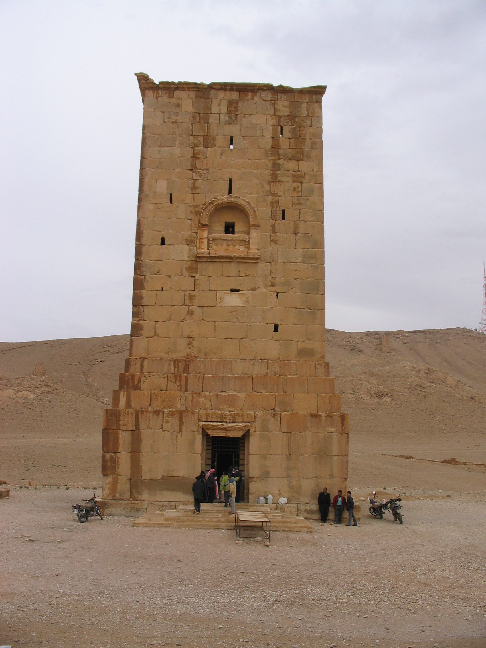 Tower Tomb, Palmyra in 2006